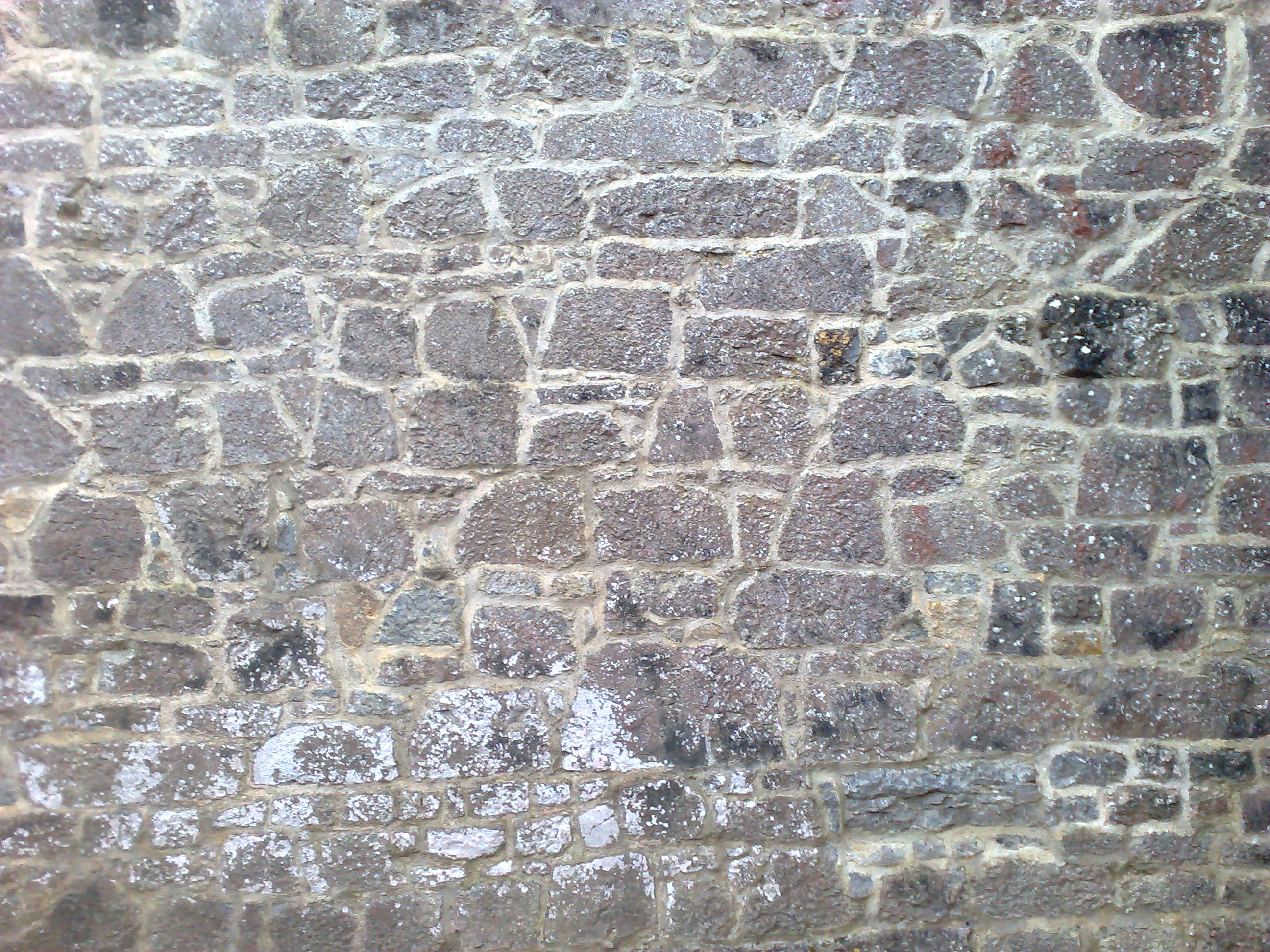 A photo of a stone wall for use as a texture map. One of the walls of the church on Limerick Road, Adare, County Limerick, Ireland.